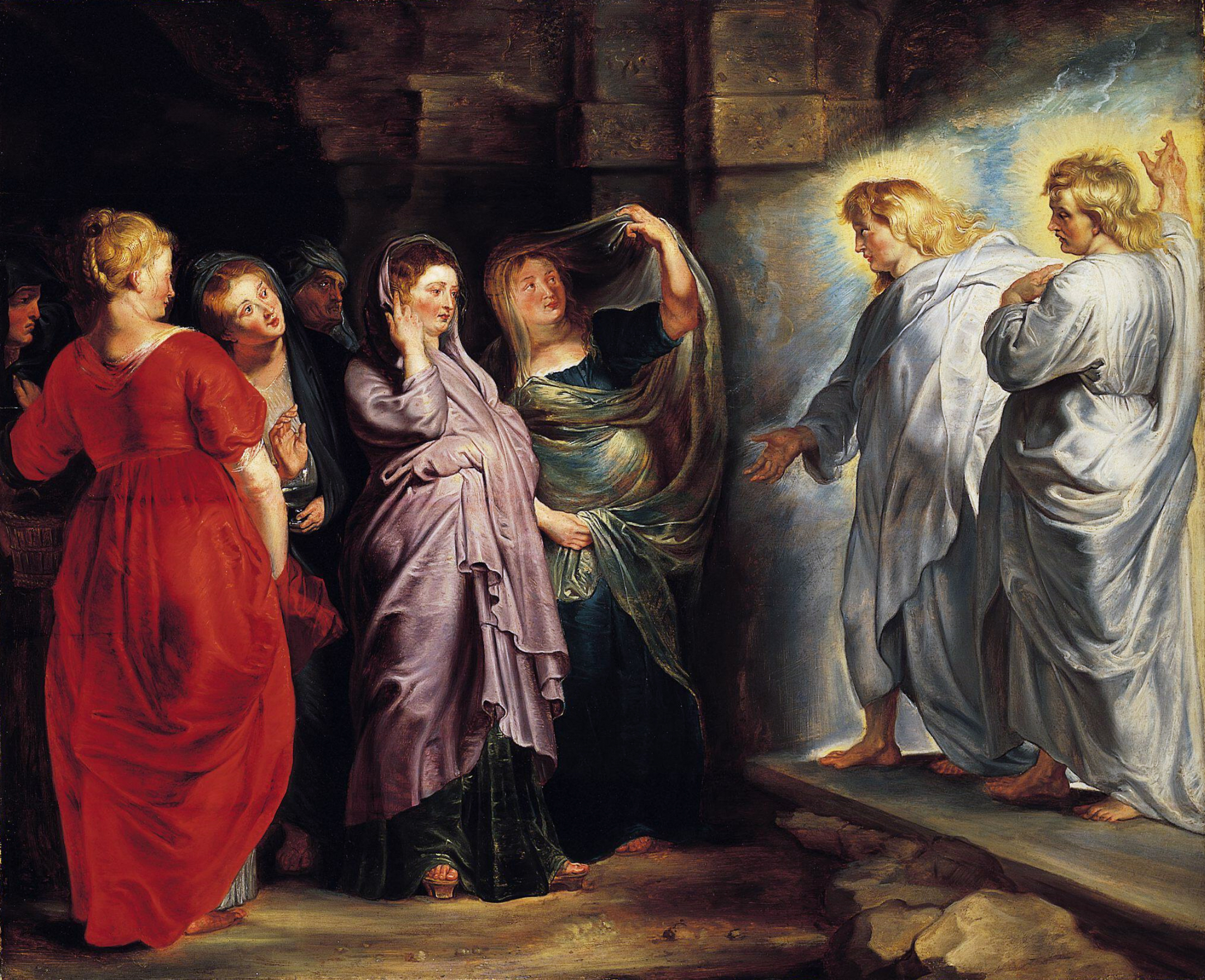 The Holy Women at the Sepulchre